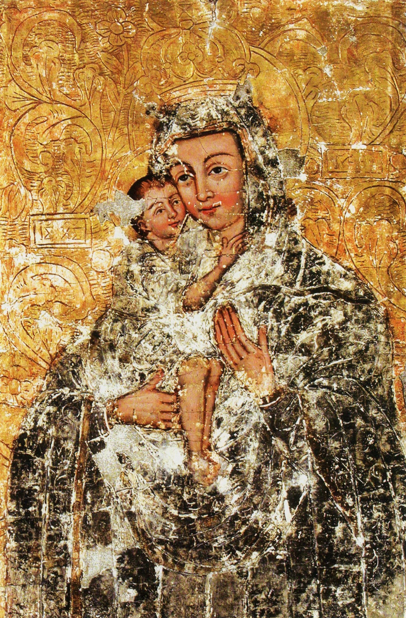 THOMAS MIKHALSKY. THE HOLY VIRGIN OF ZHIROVICHY. 1751. Wood, tempera. Prachystsienskaya Church, Dzivin, Kobryn district, Brest region. Restoration - M. Zalatukha.